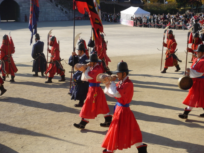 The traditional royal guards march around Gyeongbokgung(one of the royal palaces) in Seoul every morning.